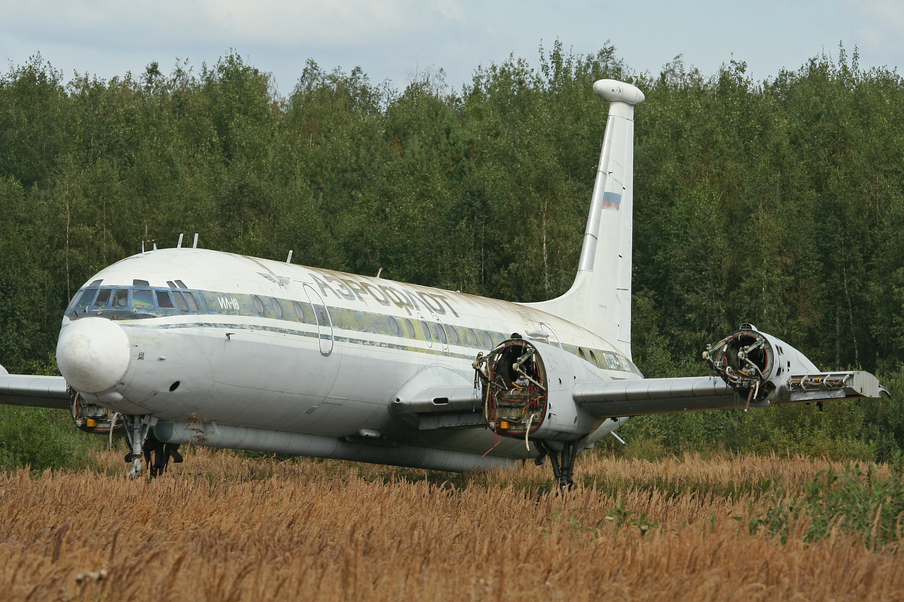 Previously operated by the Russian Air Force. Now stored and used for spares. c/n 0393607050. Chkalovsky Air Base, Russia. 13-8-2013